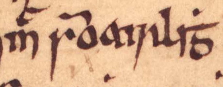 An excerpt from folio 67r of Oxford Bodleian Library MS Rawlinson B 489 (the Annals of Ulster). The excerpt concerns Mac Somhairle (died 1247), a man who may be identical to Ruaidhrí mac Raghnaill (died 1247?).